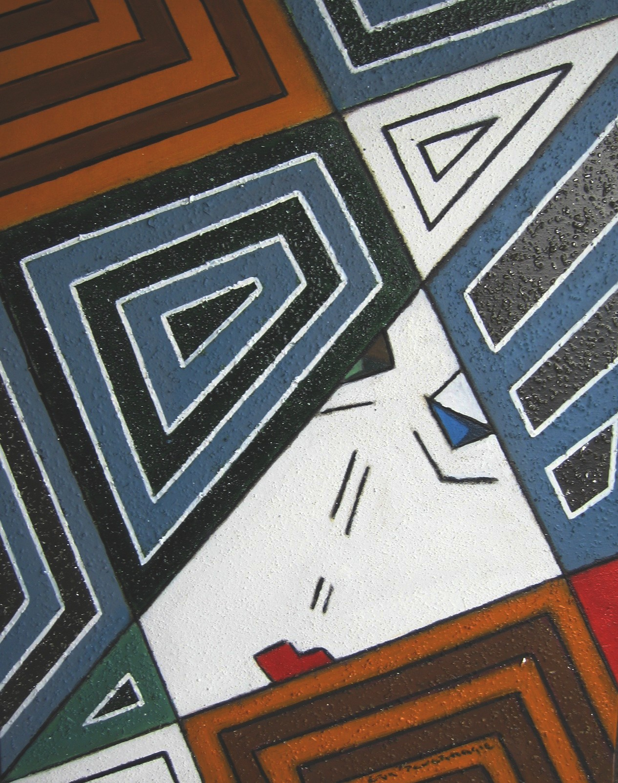 "Low profile" , by Erik Pevernagie, oil on canvas, 100 x 80 cm Keeping a low profile does not allow passion or excitement, unless it is restrained. Lying low does definitely not stand any limelight. Staying away from the madding crowd helps keeping a low profile and avoiding troubles when violent social outbursts are about to arise or when controversial decisions are going to be taken. Keeping a low profile and remaining inconspicuous is interpreted by some as a sign of haughtiness or misunderstood as introversion. Some people fit a certain profile out of inferiority. Others lift their profile out of envy. The bigger we are, the harder we fall. Despite its hazards some keep on raising their narcissistic profile, wishing to be in the picture all the time, everywhere and at any cost. Phenomenon: Keeping a low profile Factual starting point: woman hiding